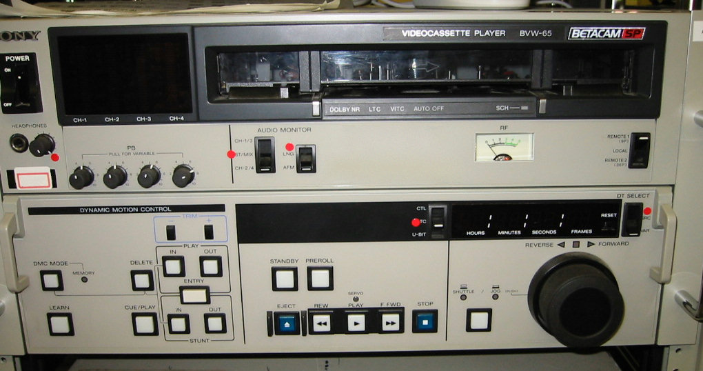 SONY BVW-65 BETACAM Video Tape Player Sony Co., Ltd. Photo by Mangos